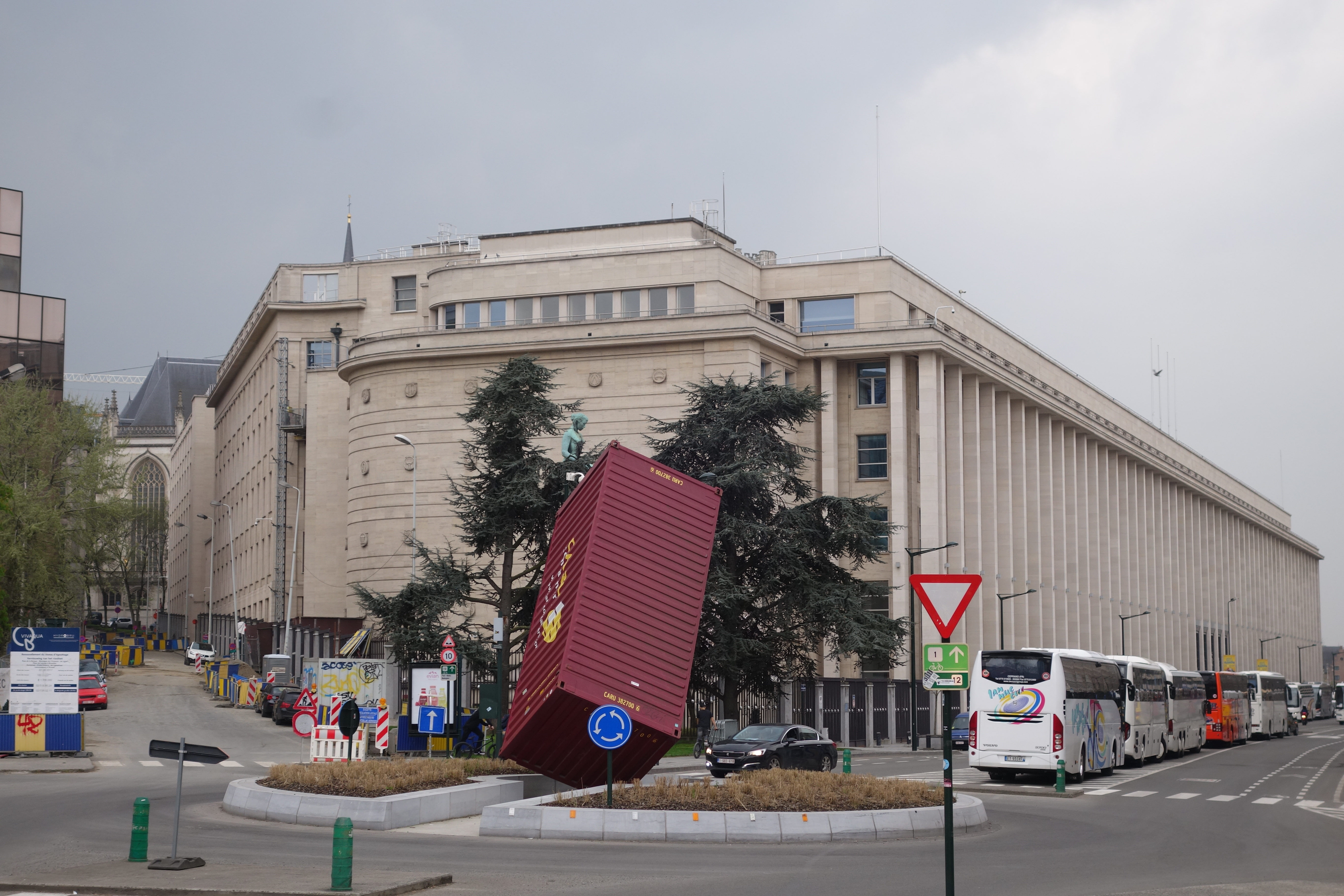 Belgian National Bank building, Brussels